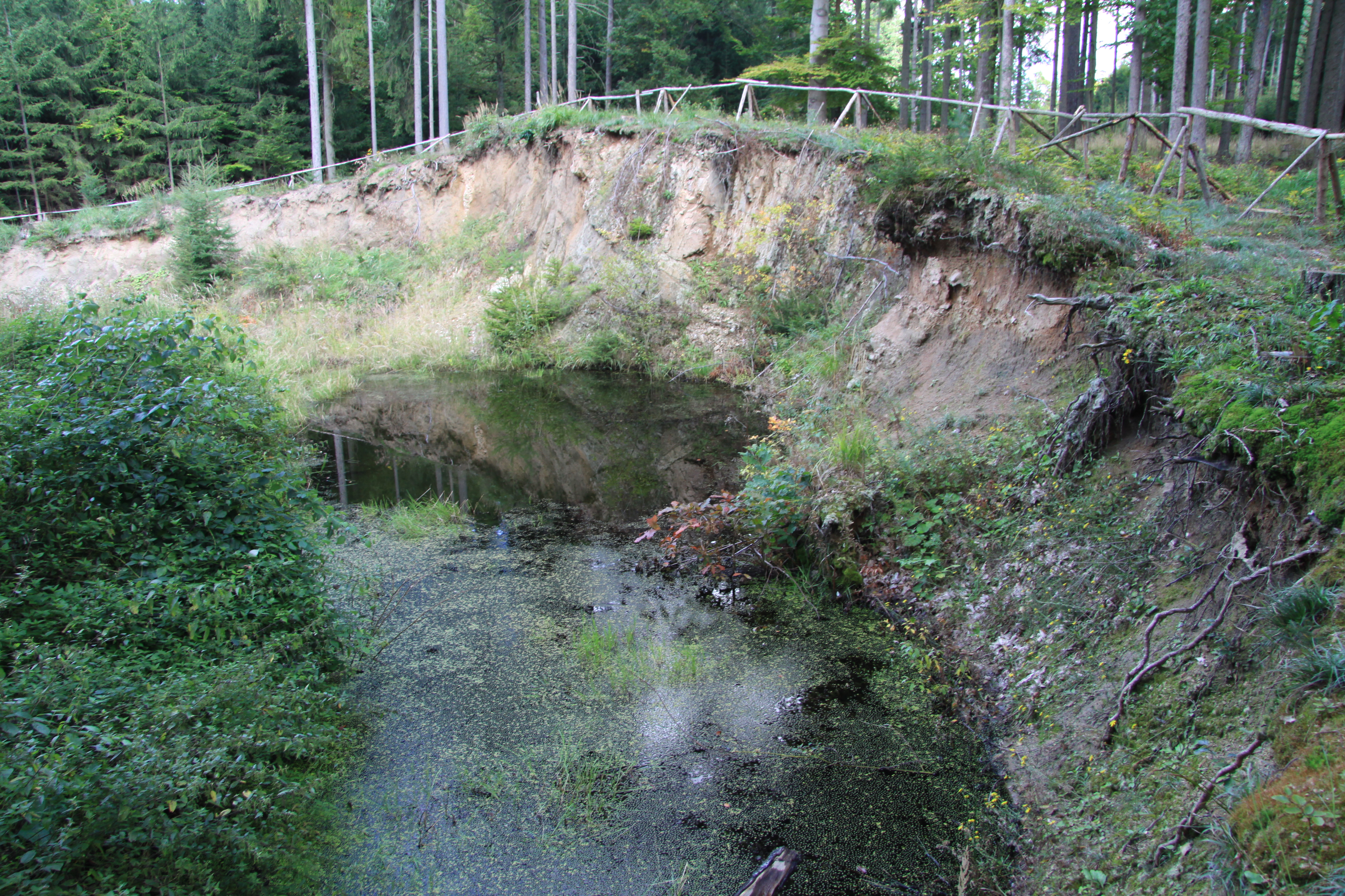 Natural monument Sobědražský prales in Písek District, Czech Republic.